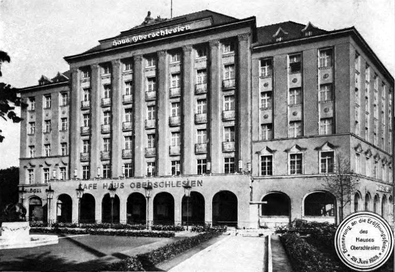 Hotel "Haus Oberschlesien" (transl.: Upper Silesia House) in Gleiwitz, Upper Silesia, Germany, 1928